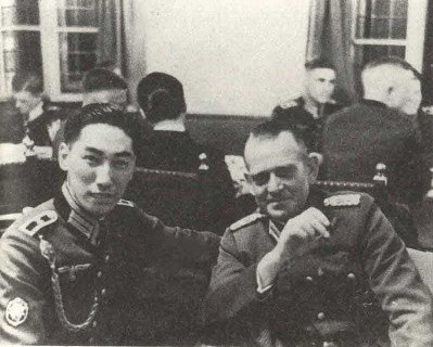 Chiang Wei-kuo in Wehrmacht attire, in Germany, with Wehrmacht officials.